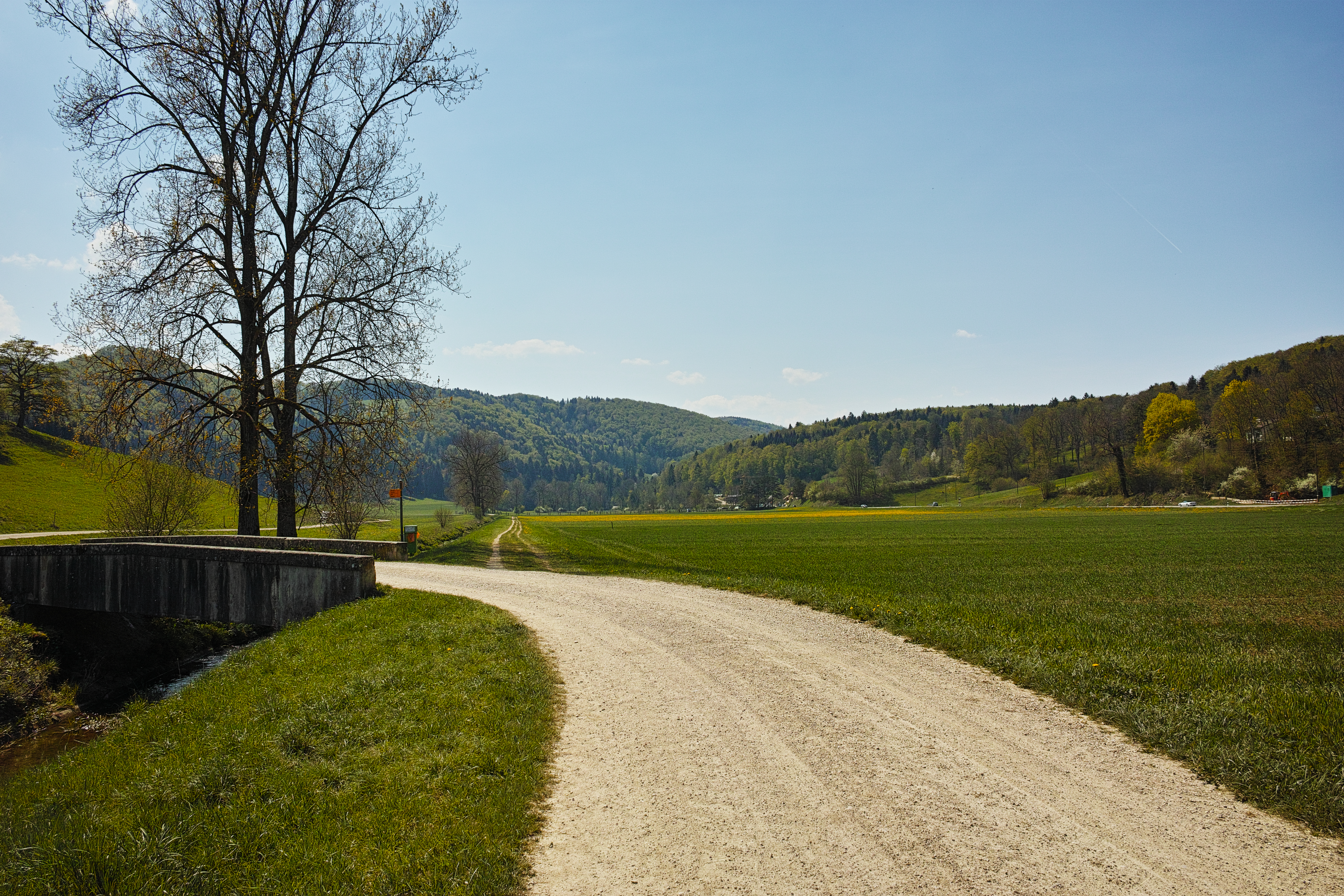 Area of former Lake Seewen (drained in 1589) in Seewen, Canton of Solothurn, Switzerland.